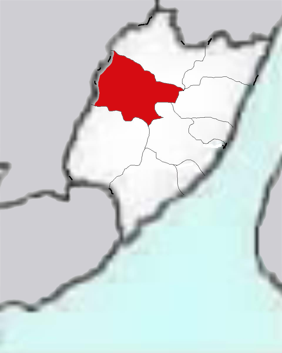 Maps of Fujian Province, China